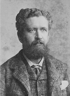 Gardiner Guion Joseph Fox